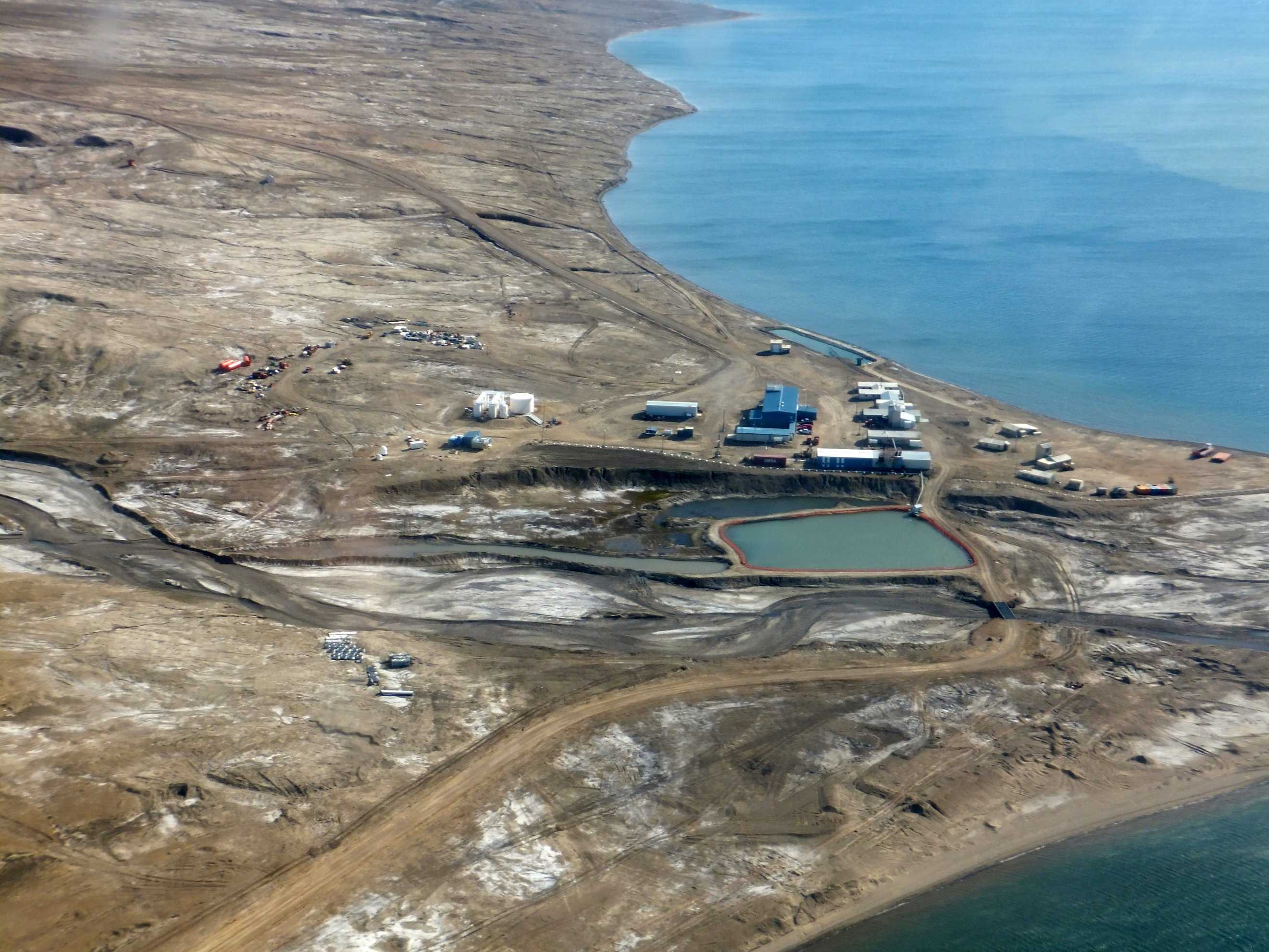 Eureka, Nunavut from the air. Airstrip is to left of photo.